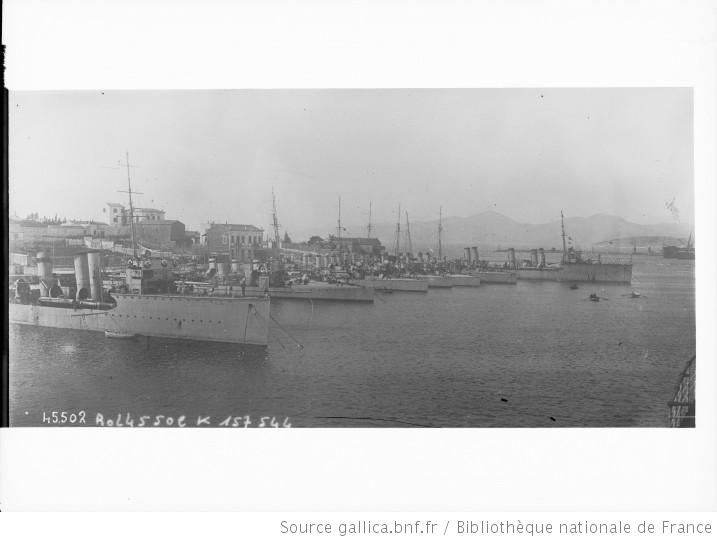 Destroyers and torpedo boats of the Royal Hellenic Navy anchored at Piraeus, 1915